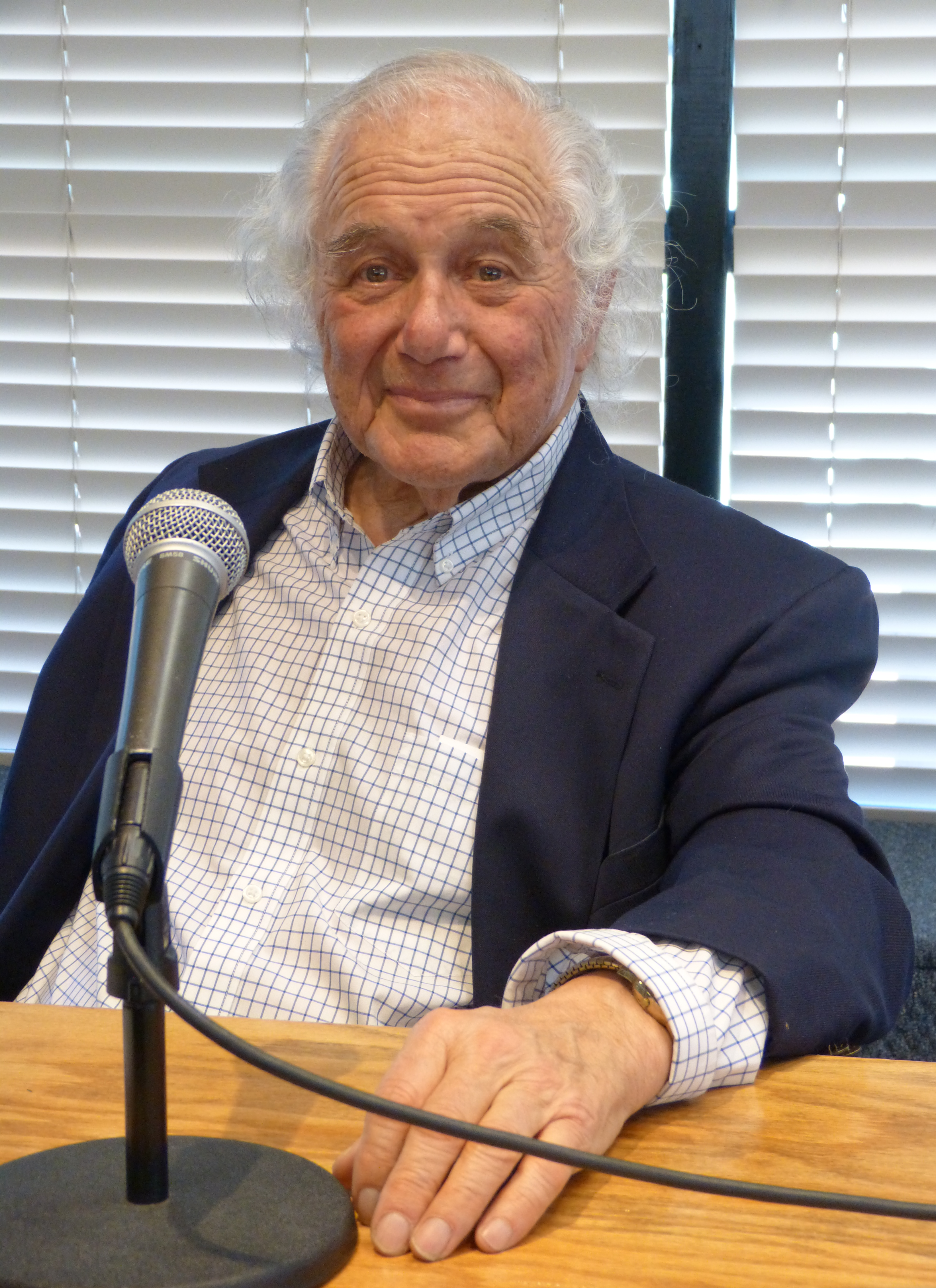 A photo of Jacob Needleman in 2014